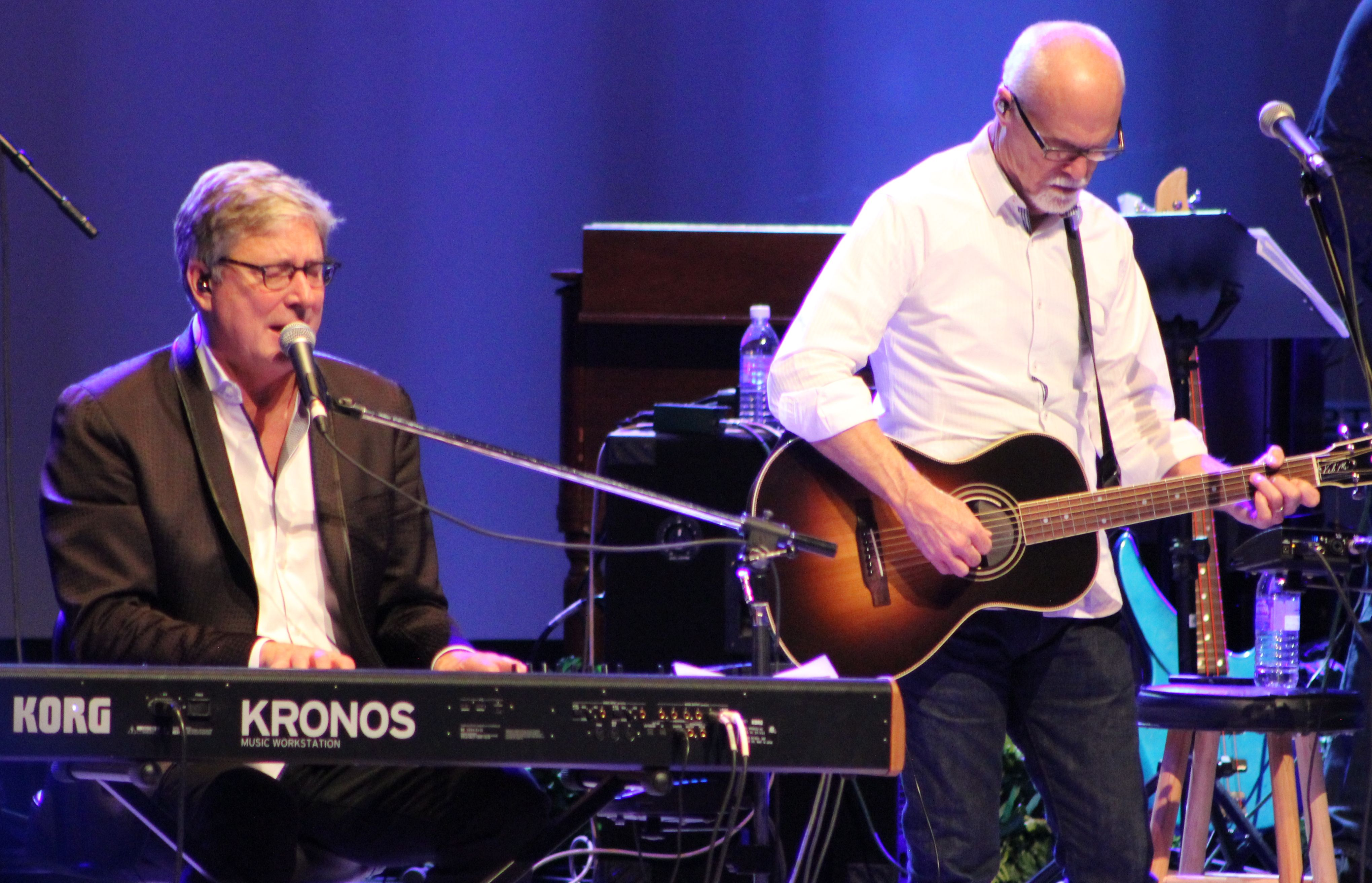 Don Moen Canada Tour 2015 at the Prayer Palace, Toronto